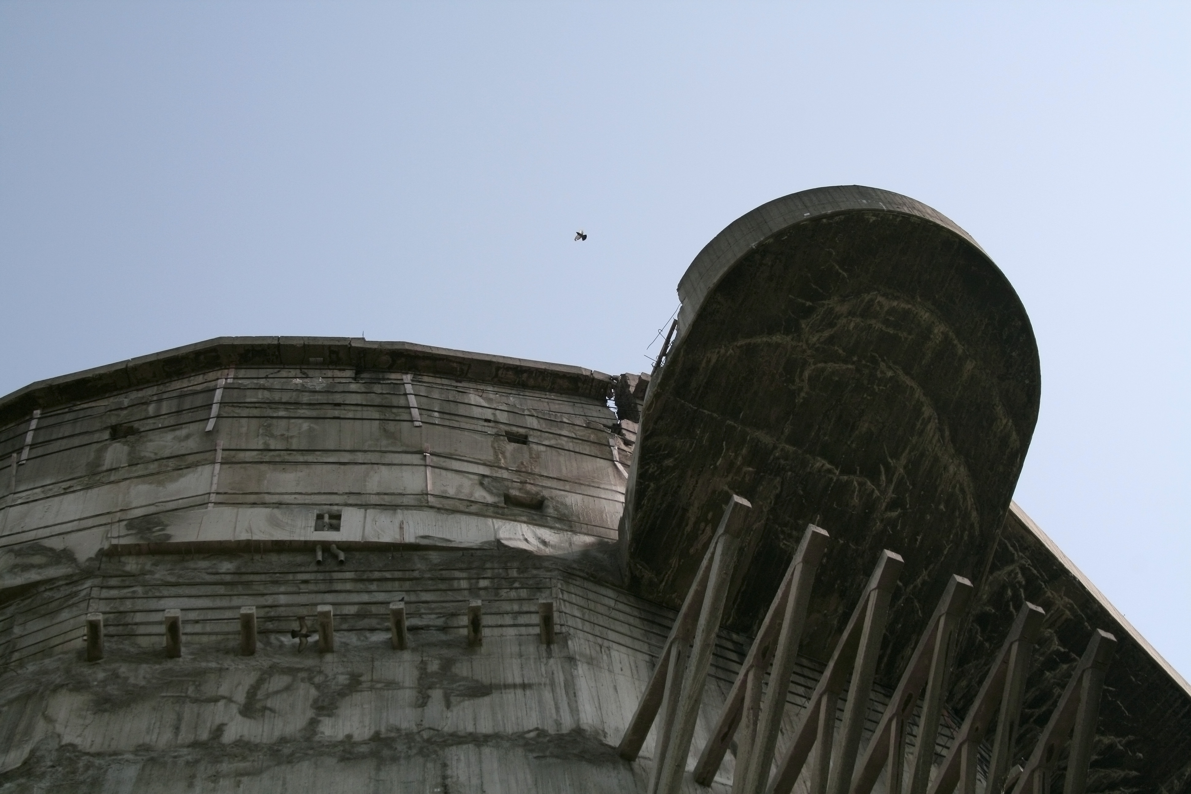 The Flakturm at the Augarten in Vienna.